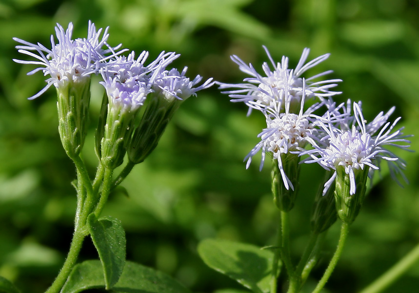 Chromolaena odorata (Syn. Eupatorium odoratum)- Siam Weed, Bitter bush, Devilweed, Hagonoy, Jack in the bush, Triffid weed • Hindi: तीव्र गंधा Tivra gandha, Bagh dhoka • Malayalam: കമ്മ്യുണിസ്റ്റ് പച്ച Communist Pacha, Venapacha- in Hyderabad, India.